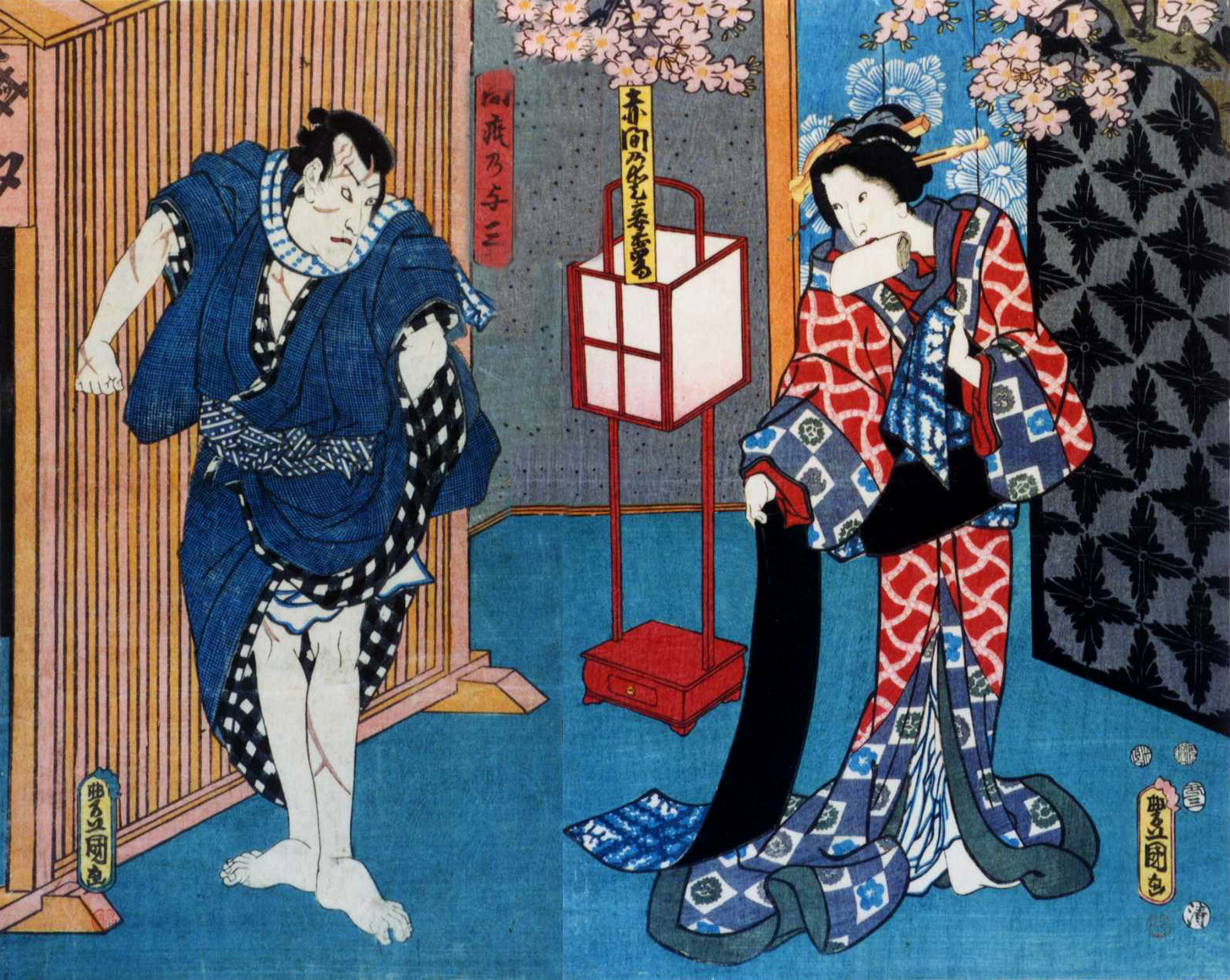 Danjūrō Ichikawa VIII as Mukō-kizu no Yosa and Baikō Onoe IV as Akama no Aishō Otomi, by Toyokuni Utagawa III, from the April 1853 Edo Nakamura-za production of Yowa Nasake Ukina no Yoko-gushi